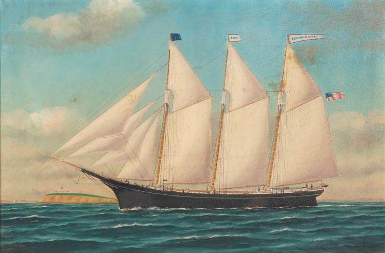 Painting by W.P. Stubbs (1842-1909) Schooner Edward M. Reed, Captain Chauncey S. Kelsey, Master and managing owner (1875-1878) log books